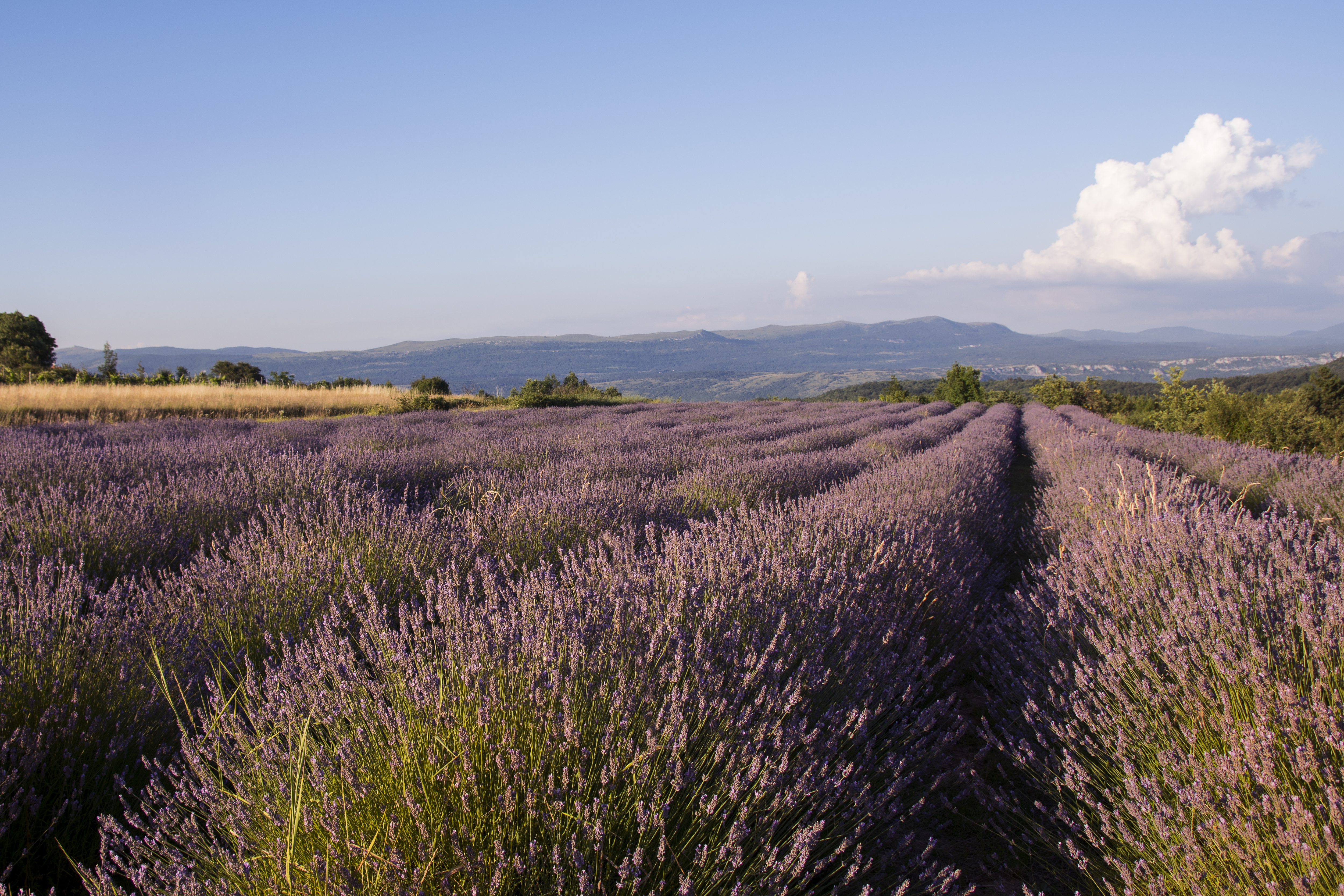 Pregara, Slovenian Provansa